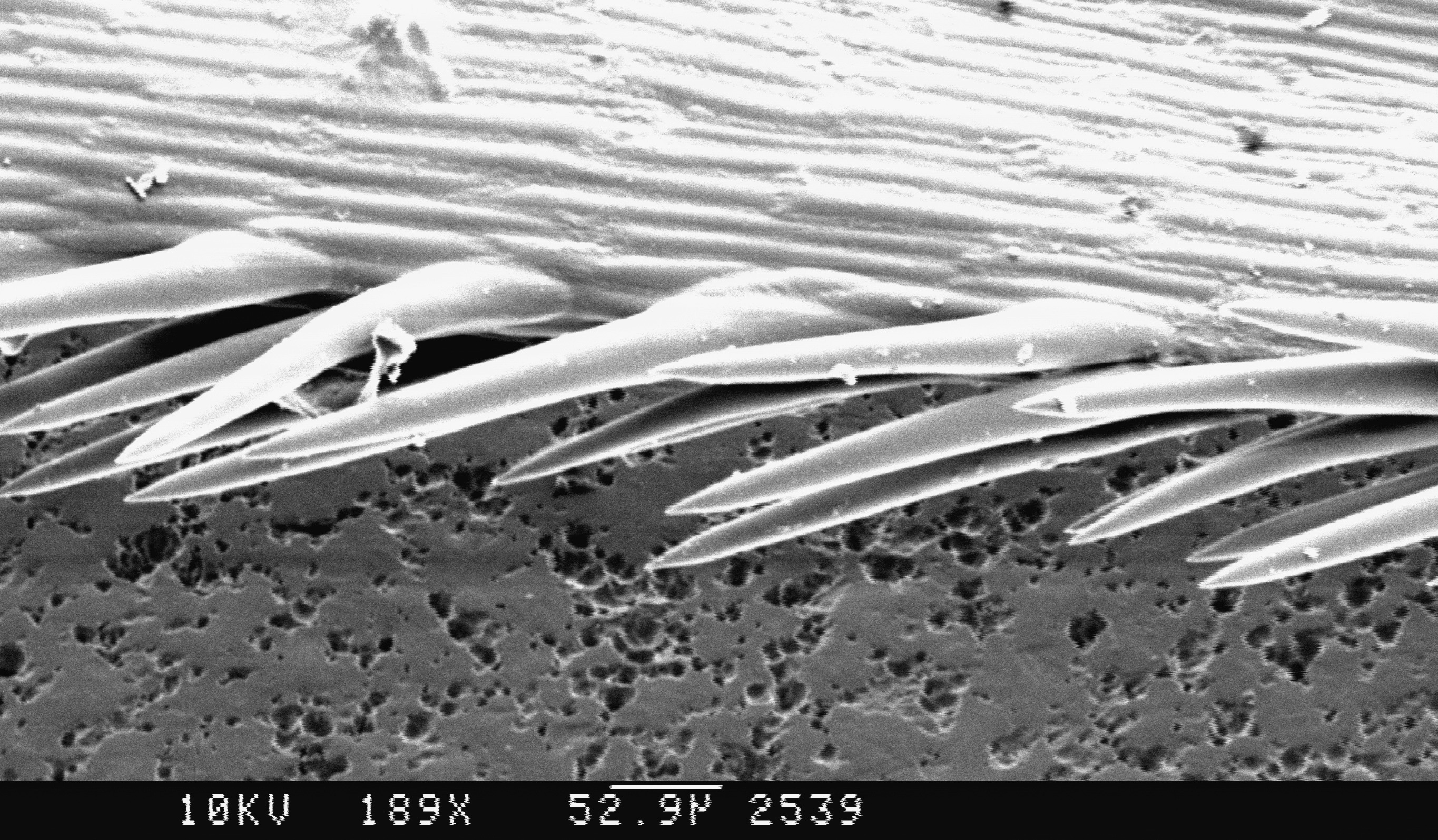 Retrorse barbs at margin of Hordeum murinum spikelet. Scanning electron micrograph Source: Curtis Clark